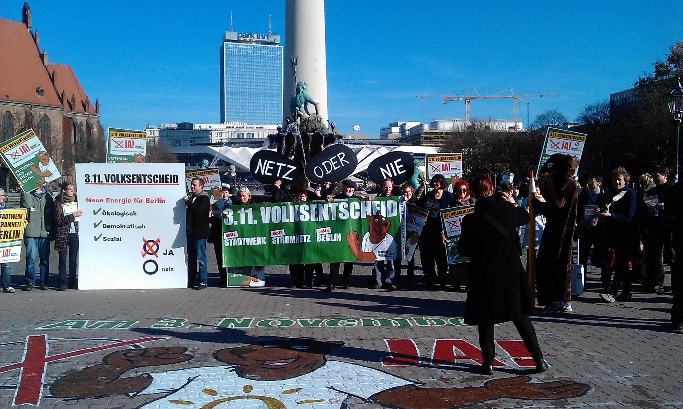 Final rally of Berliner Energietisch at Neptunbrunnen for people's initiative "Neue Energie für Berlin", a few days prior the referendum.